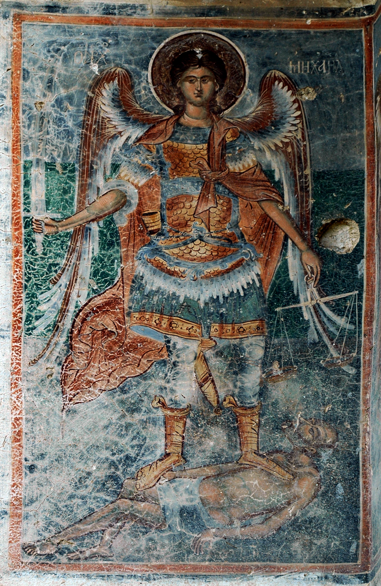 Icone of Michael